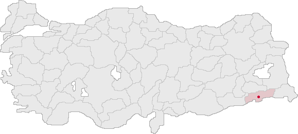 Shows the location of the Şırnak province in Turkey